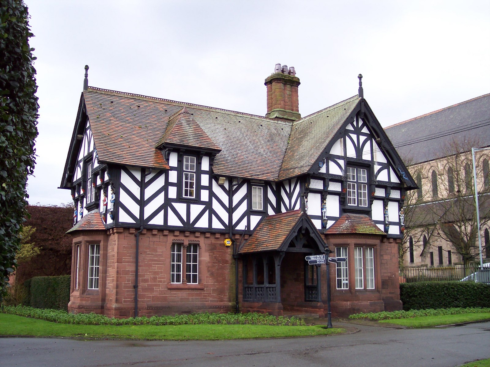 Photograph of the lodge at the entrance to Grosvenor Park, Chester